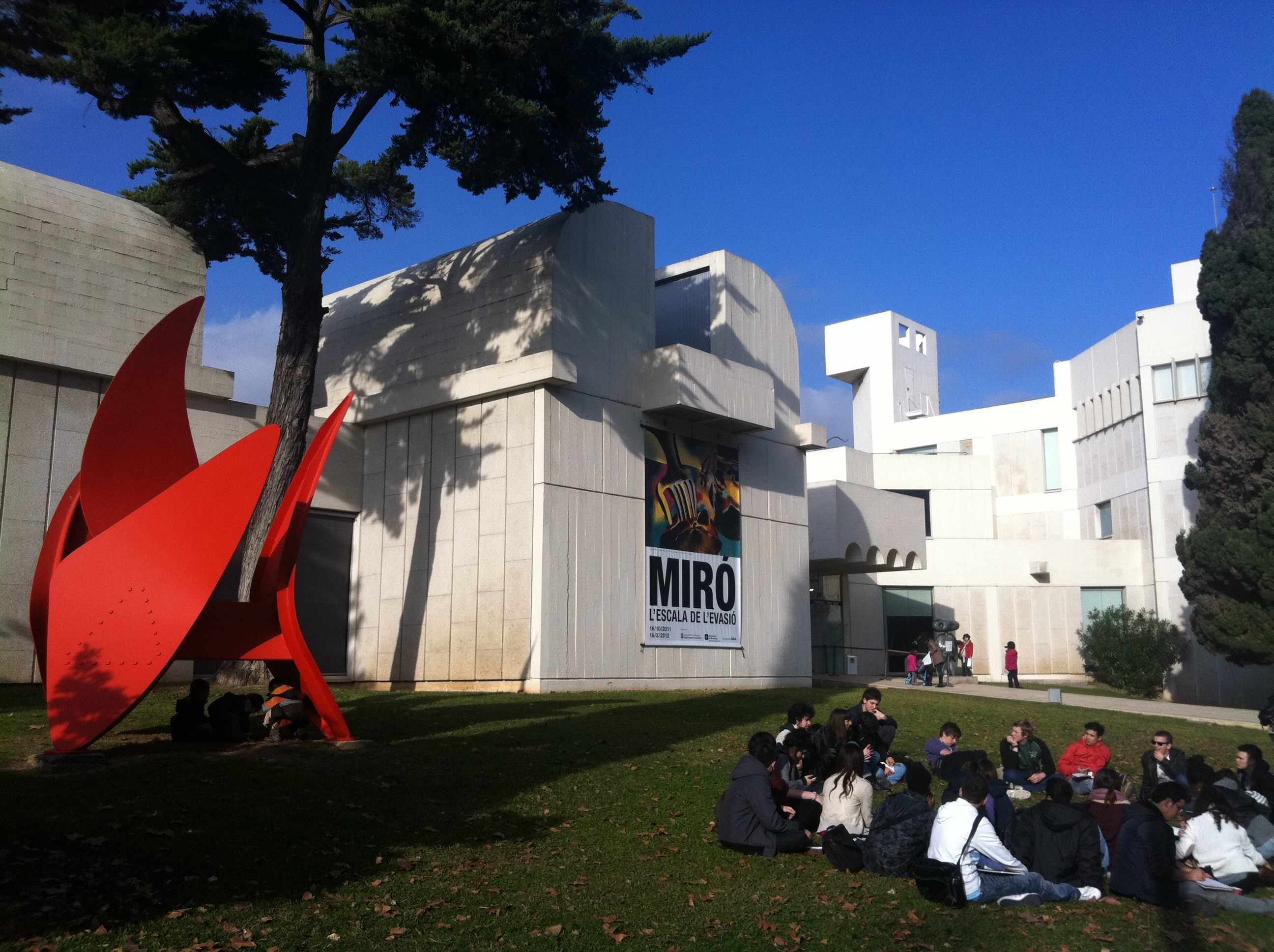 Fundació Joan Miró exterior views